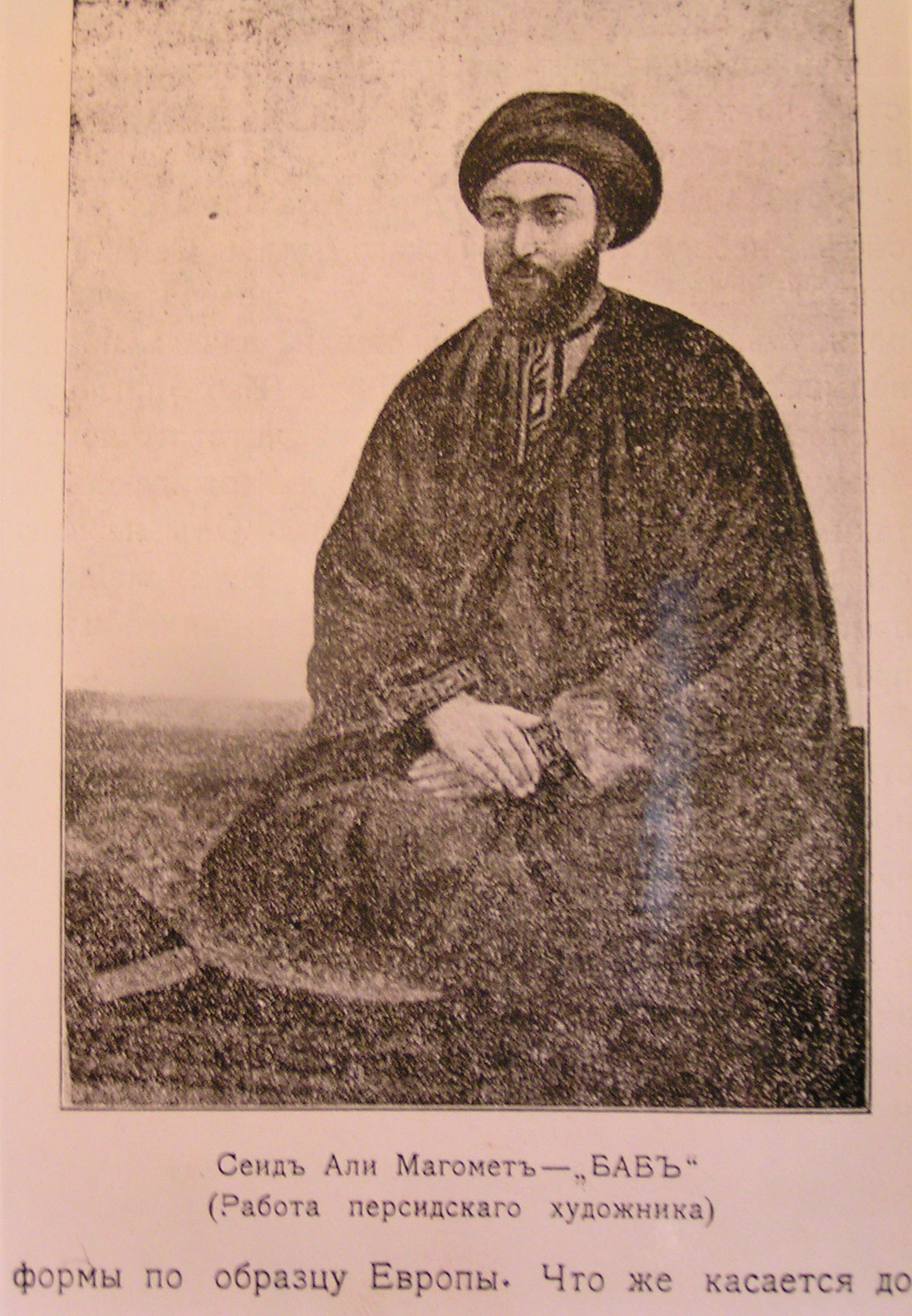 Bábism founder The Báb.